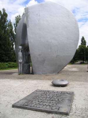 Monument martyrdom of the children in Łódź in the Park Szarych Szeregów in remember of the killed children of the Polenjugendverwahrlager Litzmannstadt (Concentrationcamp for Children). - Google Maps - Google Earth